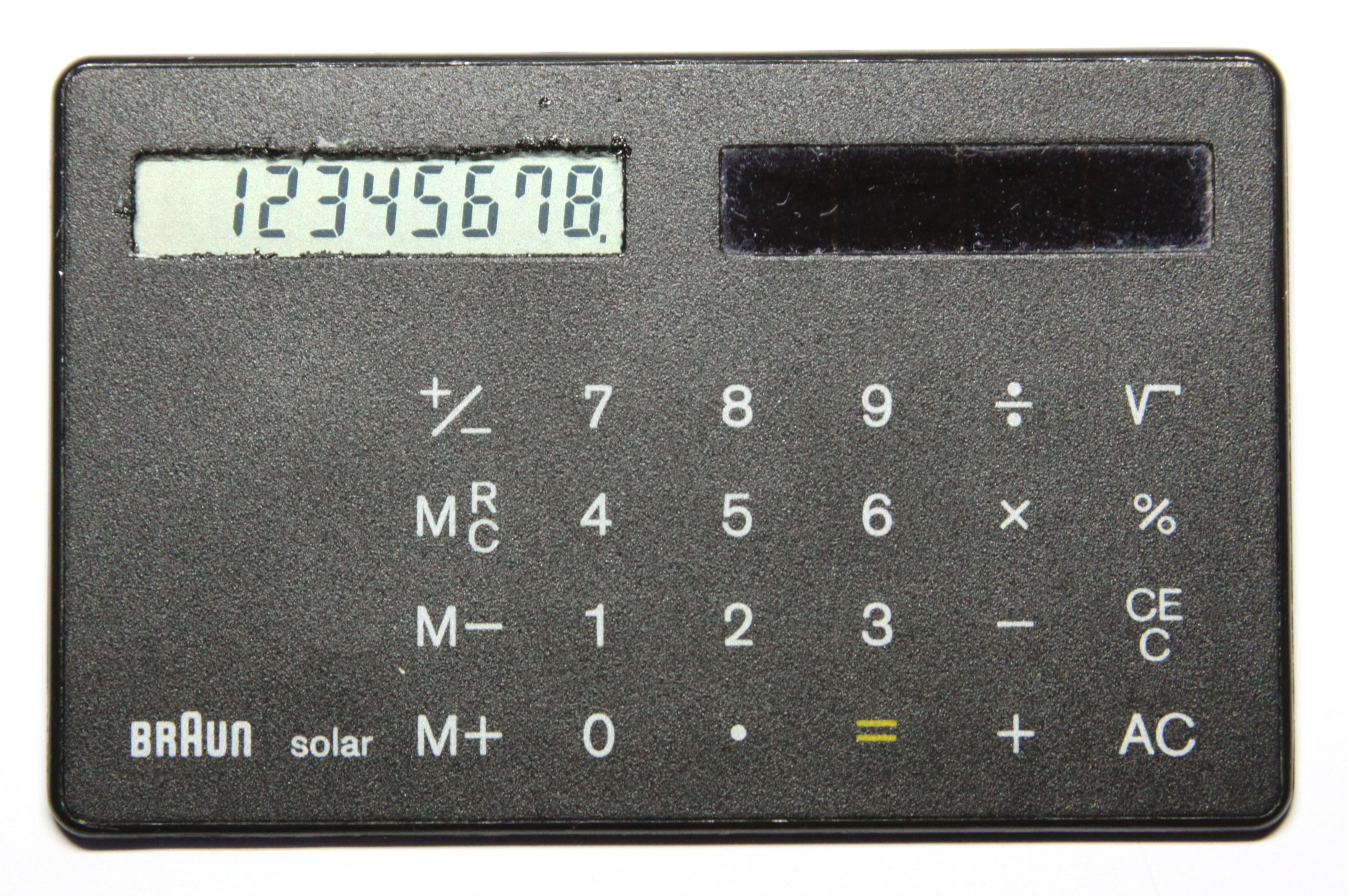 Braun 4856 solar card calculator